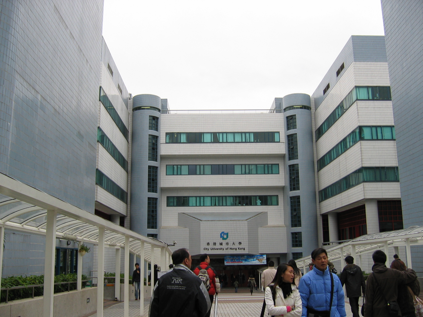 City University of Hong Kong